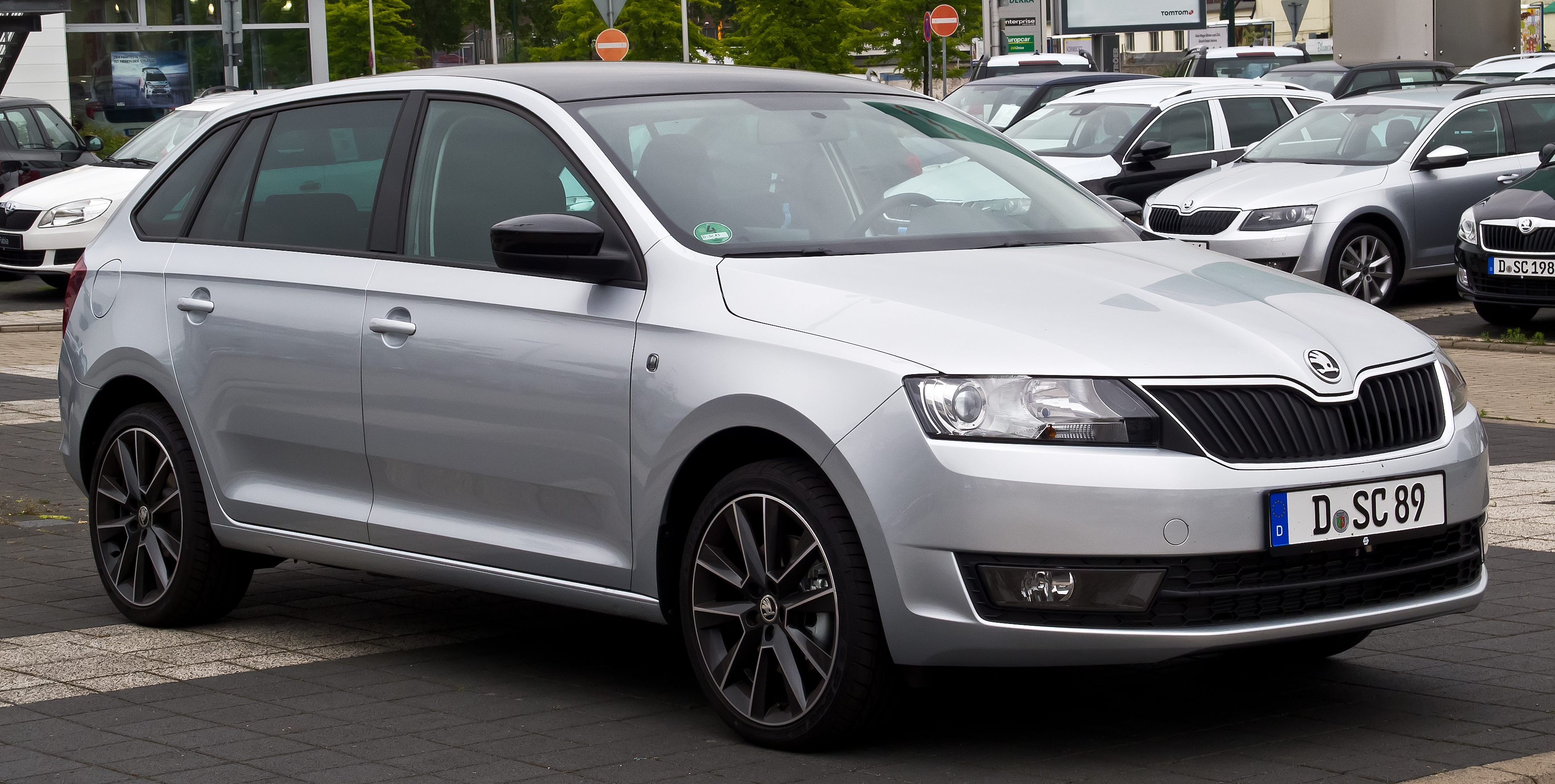 Skoda Rapid Spaceback 1.2 TSI Style Plus